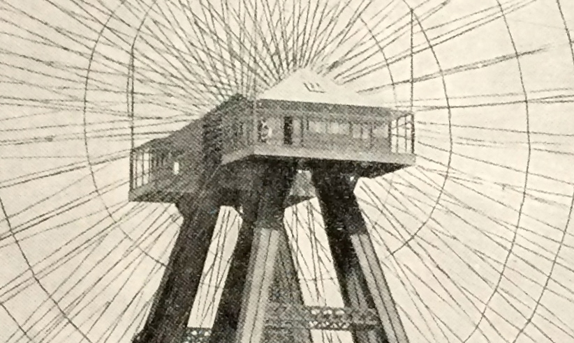 Platforms of the Great Wheel London